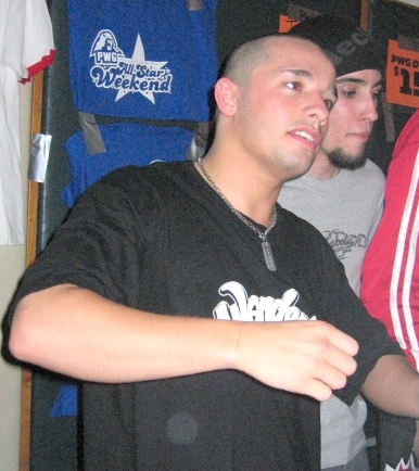 Jonny Storm with the fans.